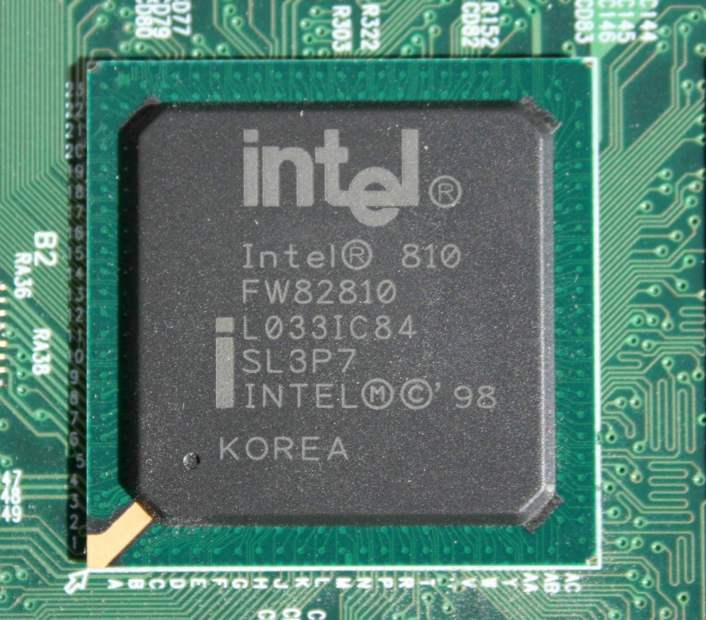 A photo of a Intel 810 Chipset north bridge graphics processing unit.